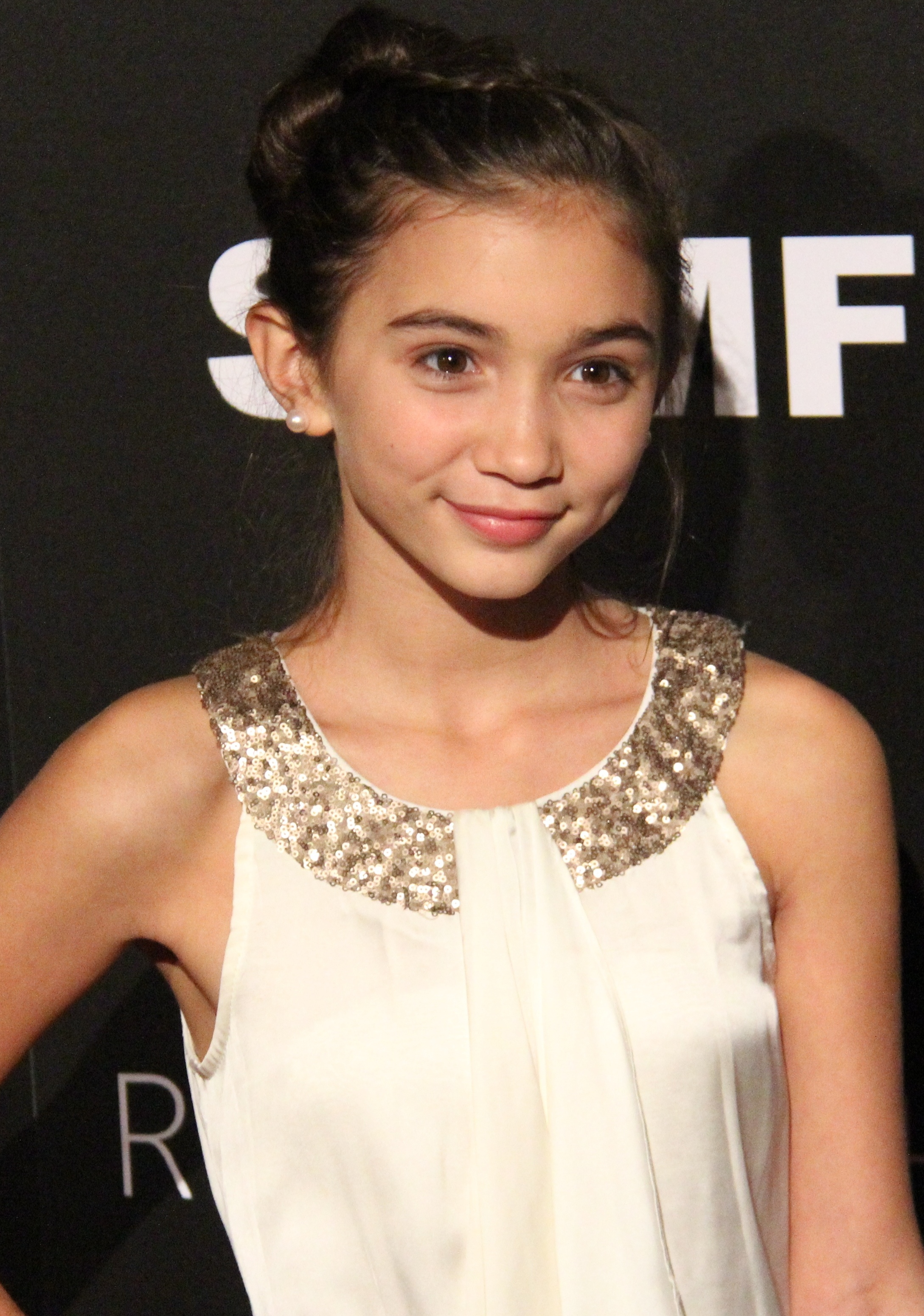 Rowan Blanchard ("Girl Meets World") at Redlight Traffic's inaugural Dignity Gala (Michelle Tiu / Neon Tommy)